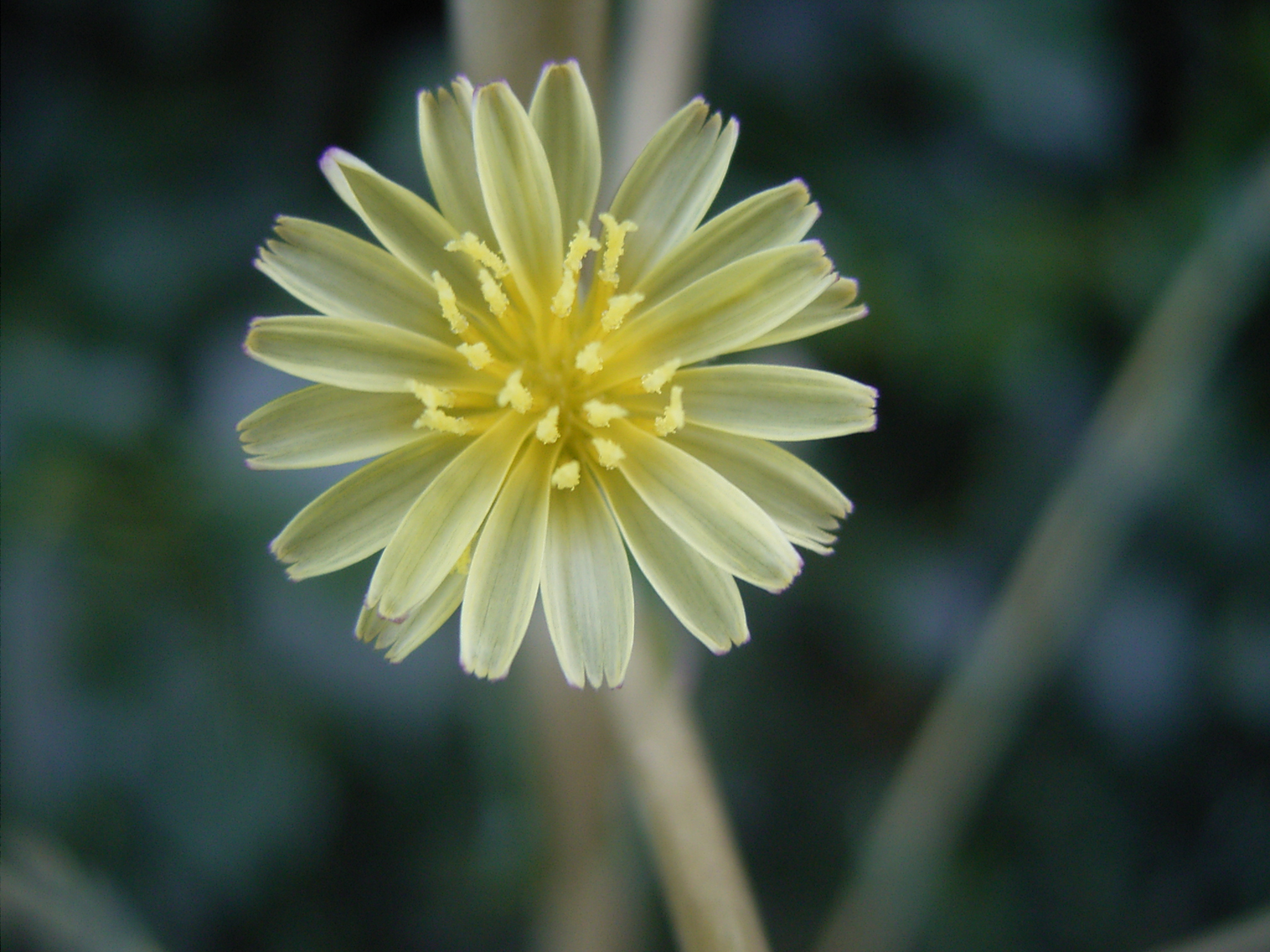 This photo shows a flower of Lactuca serriola